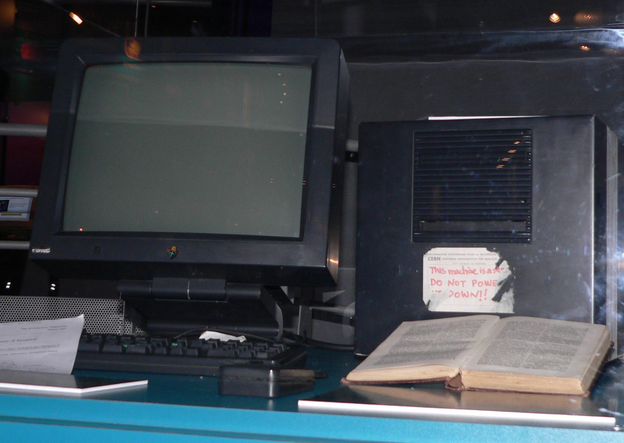 Thiws is the Next computer where the web started! The first HTML page was on this computer.